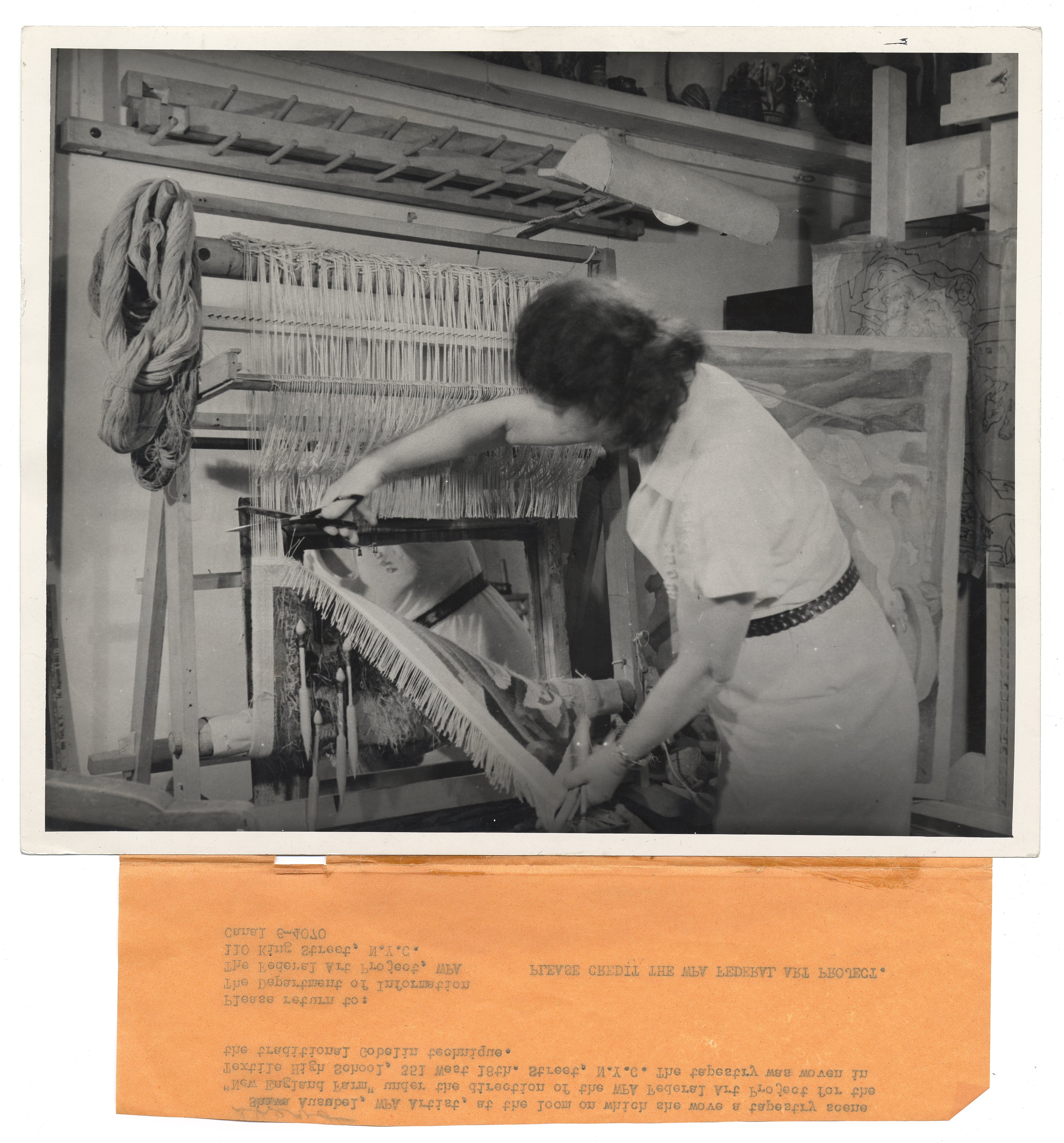 Identification on verso (typewritten and stamped): Federal Art Project W.P.A., Photographic Division, 235 East 42nd Street, New York City. Miss Ausobel [sic] at loom and Tapestries produced by her; Date: 7/19/38; Negative No.: 3163-6; Photographer:Pollard Identification on accompanying label (typewritten): Sheva Ausubel,[sic] WPA Artist, at the loom on which she wove a tapestry scene